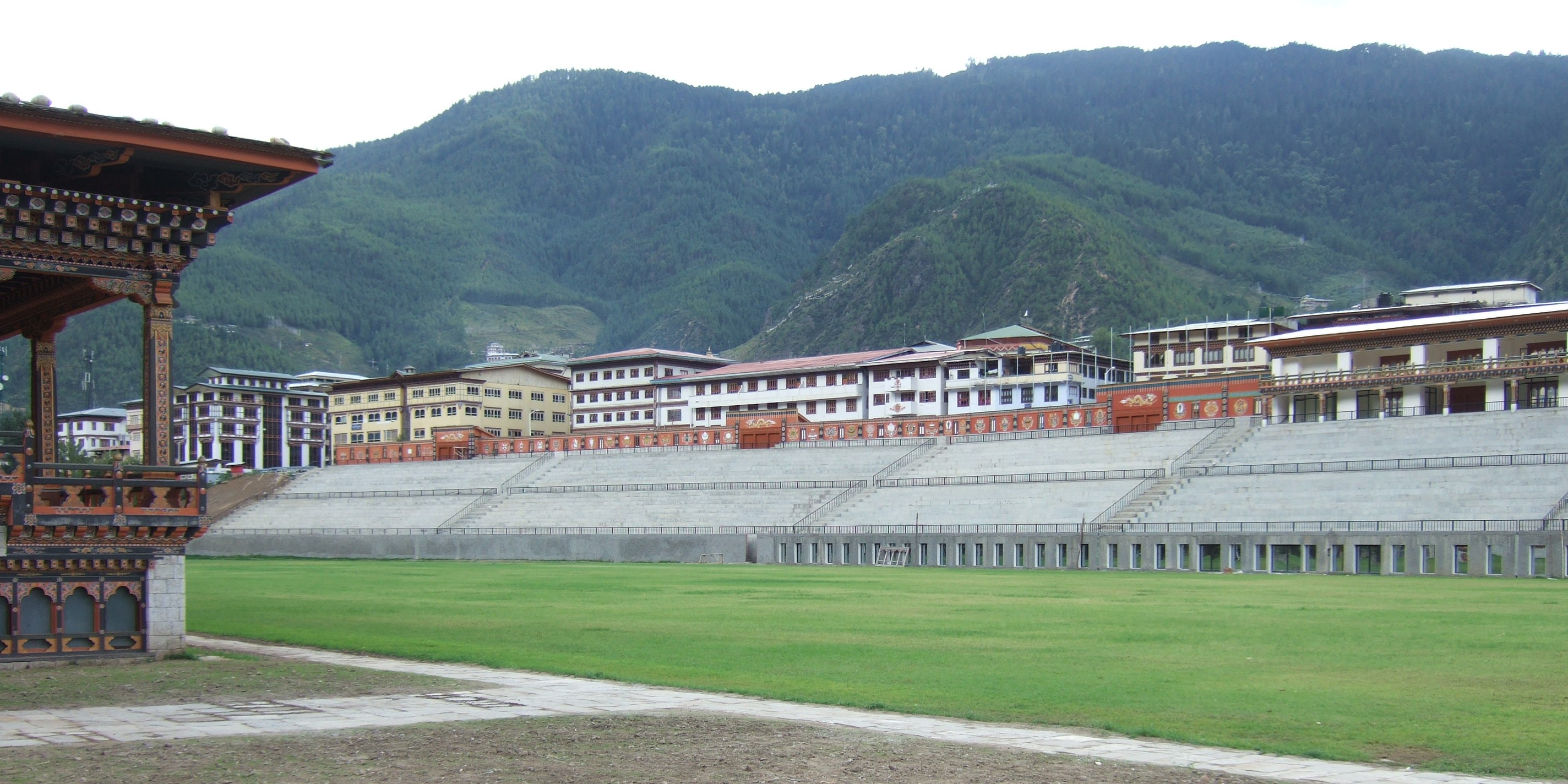 Changlimethang Stadium (sports ground), Thimphu, Bhutan.